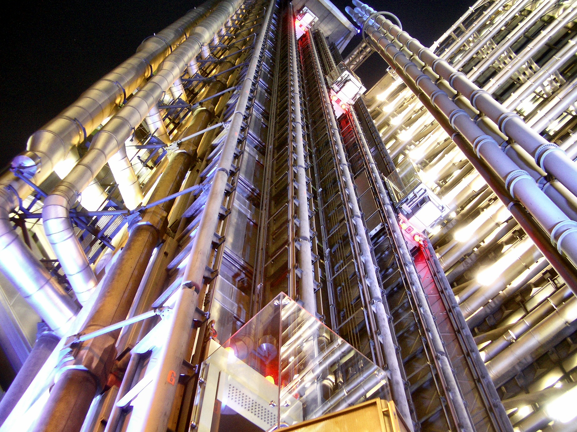 Lloyds_Building, London.Lloyds Building